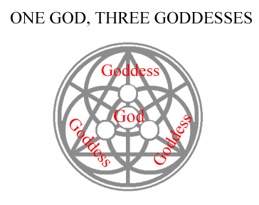 Sacred Geometry